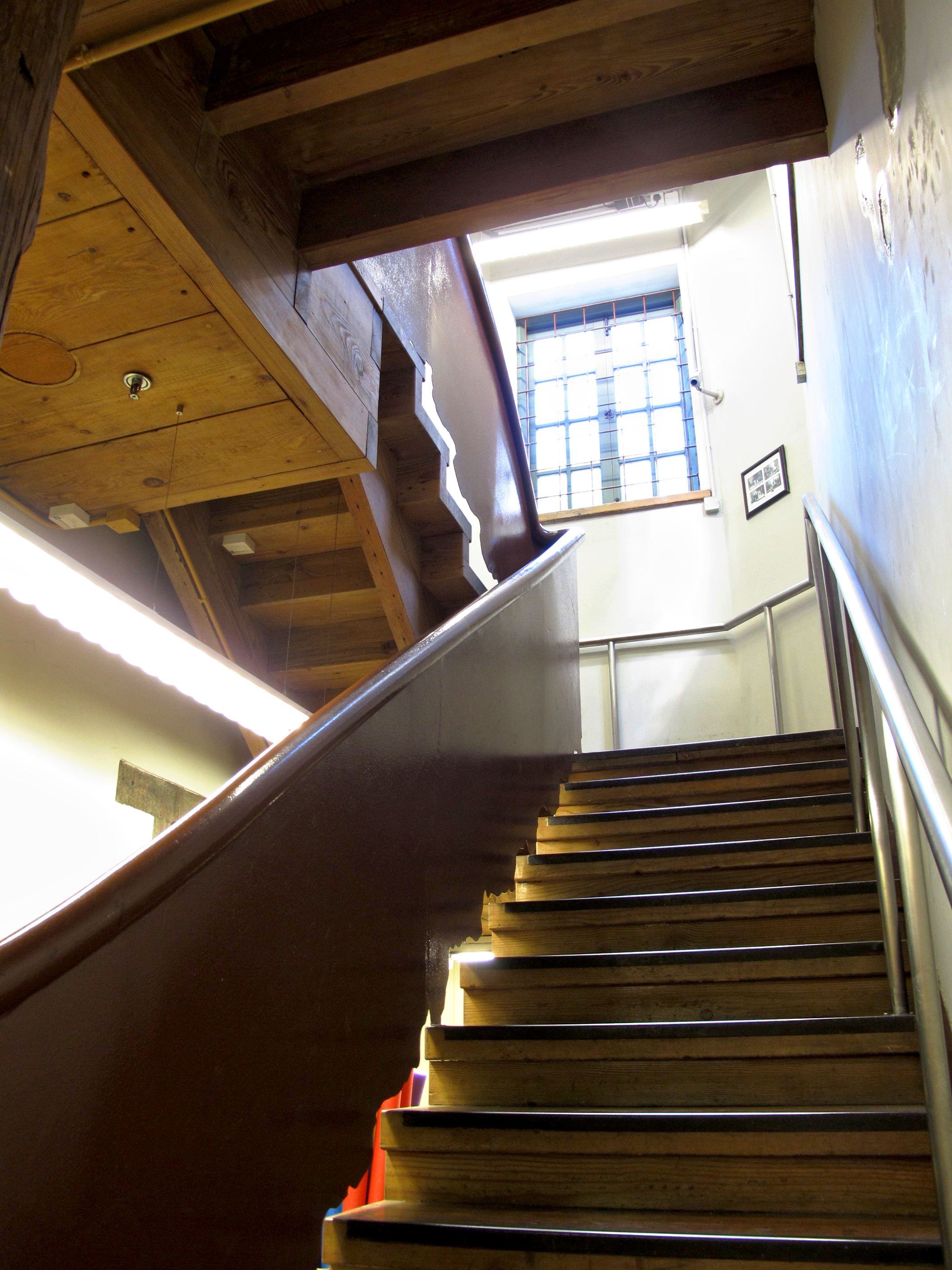 Old Stanley Police Station Stair